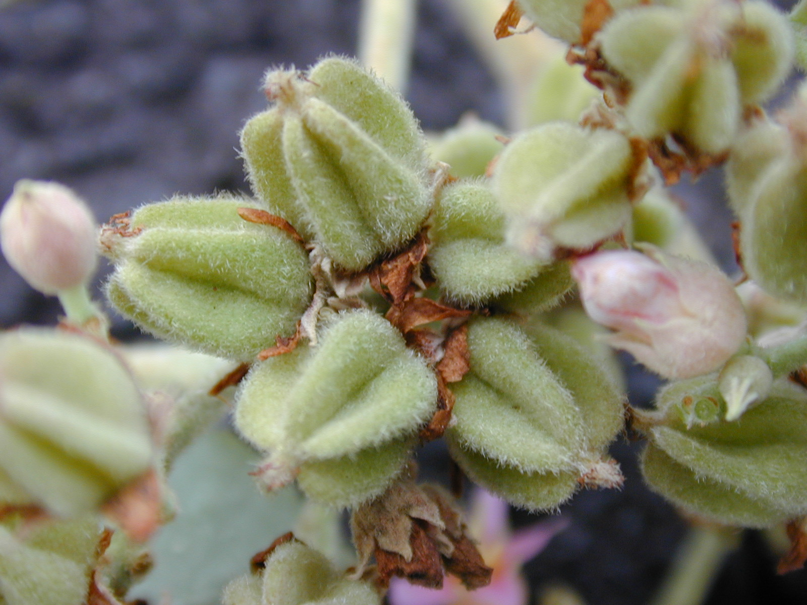 Melochia umbellata (immature fruits). Location: Hawaii, Keaukaha